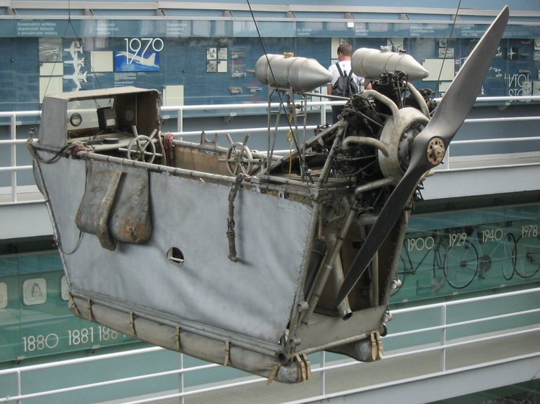 Basket of military ballon used by Army of Czechoslovakia in 1930s (Exhibition in Prague Museum of Technology). This type of basket was equipped by 120 HP Siemens Sh 14 engine, allowed change ballon type K temporary to airship. It was used for transport between locations.